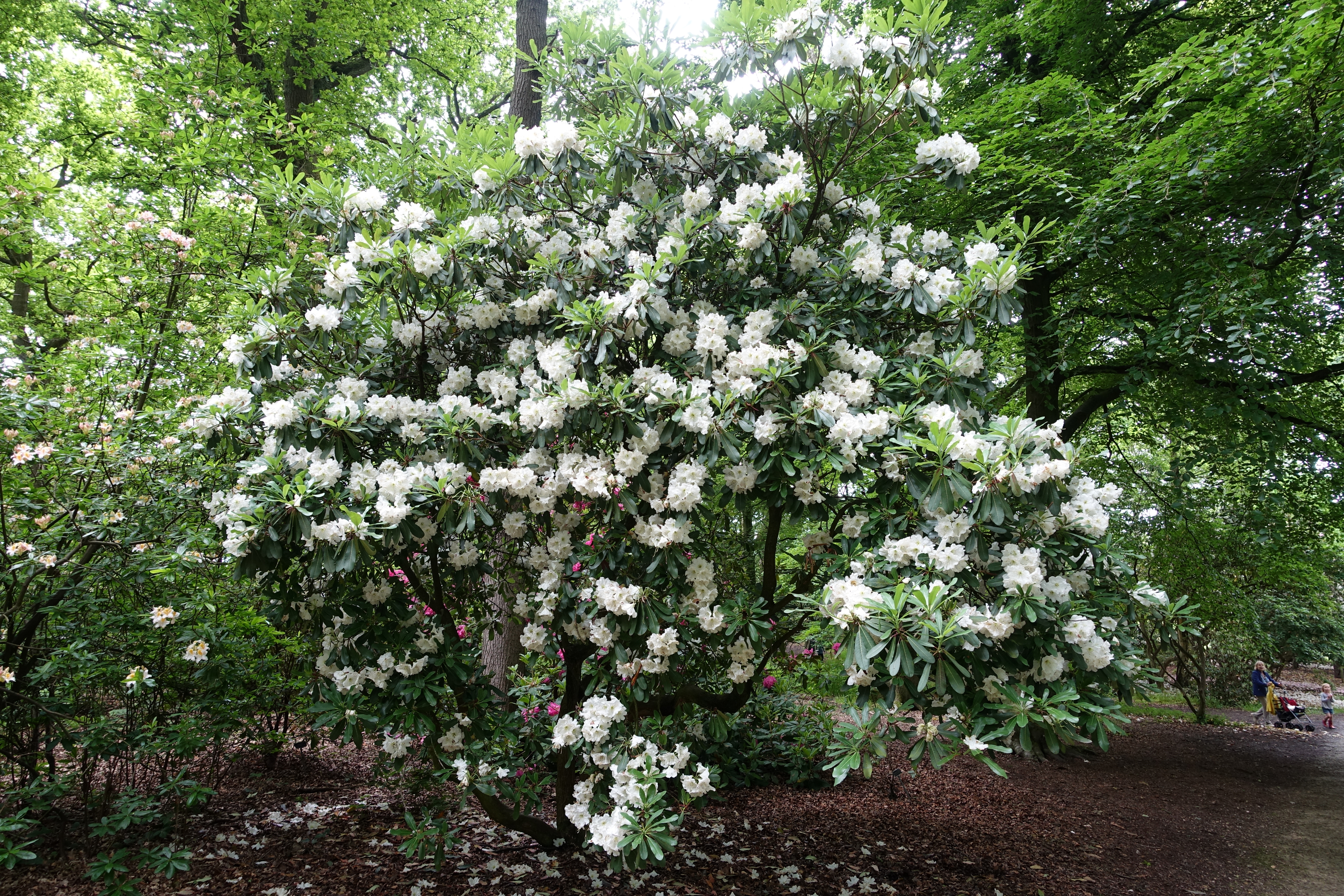 Horticultural specimen in RHS Garden Harlow Carr - North Yorkshire, England.